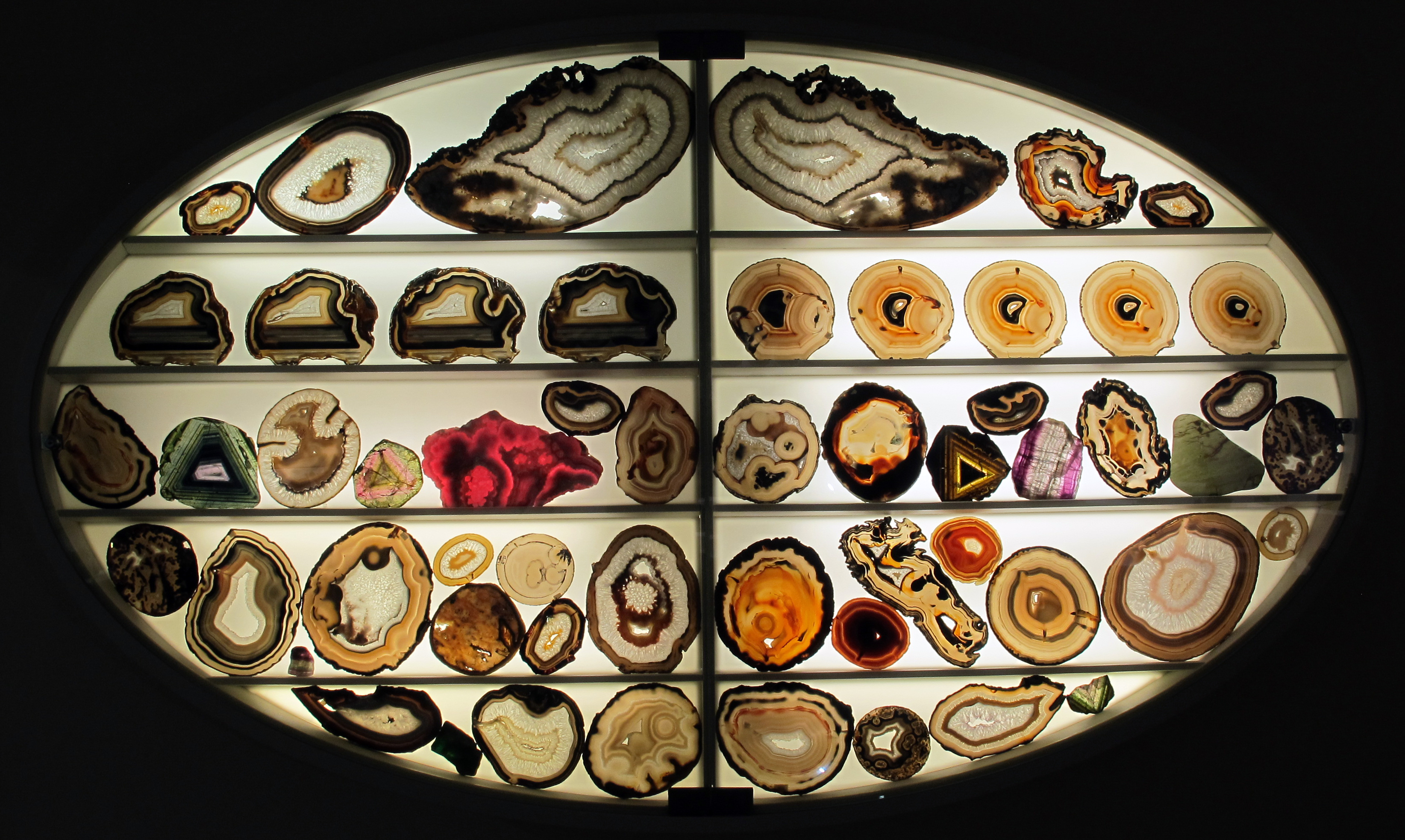 Museo di storia naturale (Florence) - Mineralogy section